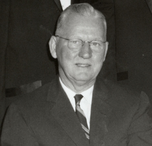 Title: Four unidentified men with former Mayor John B. Hynes and Mayor John F. Collins Creator: City of Boston, Massachusetts, USA Date: circa 1960-1968 Source: Mayor John F. Collins records, Collection #0244.001 File name: 244001_0299 Rights: Copyright City of Boston Citation: Mayor John F. Collins records, Collection #0244.001, City of Boston Archives, Boston